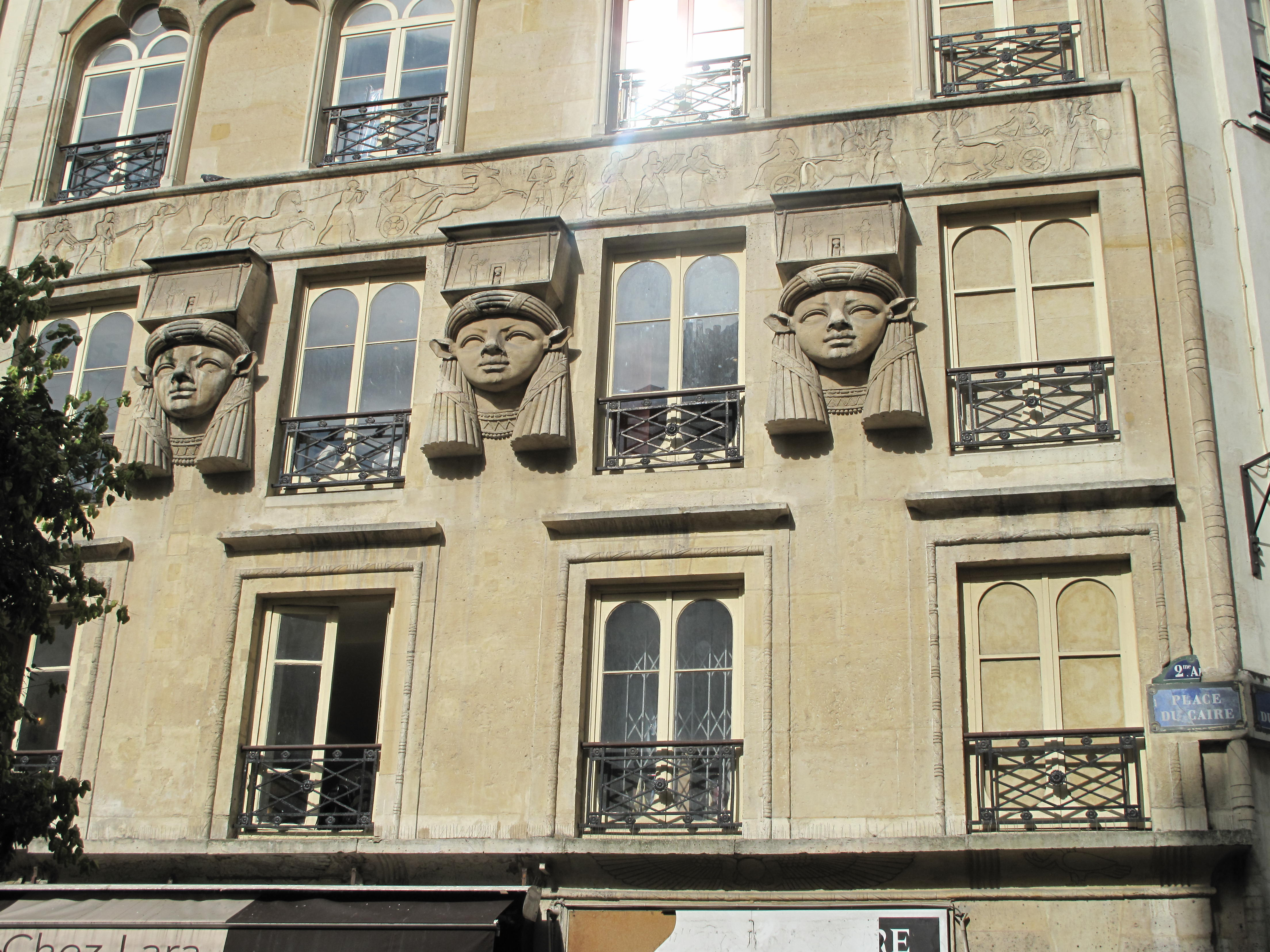 Building at # 2 Place du Cairo", an 1828 building on a passage also known as the Faire du Caire built in 1798 in place of the convent of the "Filles de la Charité". The name comes from the campaign in Egypt of Napoleon. The distinctive Hathor head sculptures and egyptian drawings were designed by J. G. Garraud : 2 Place du Caire, Paris 2nd arr.